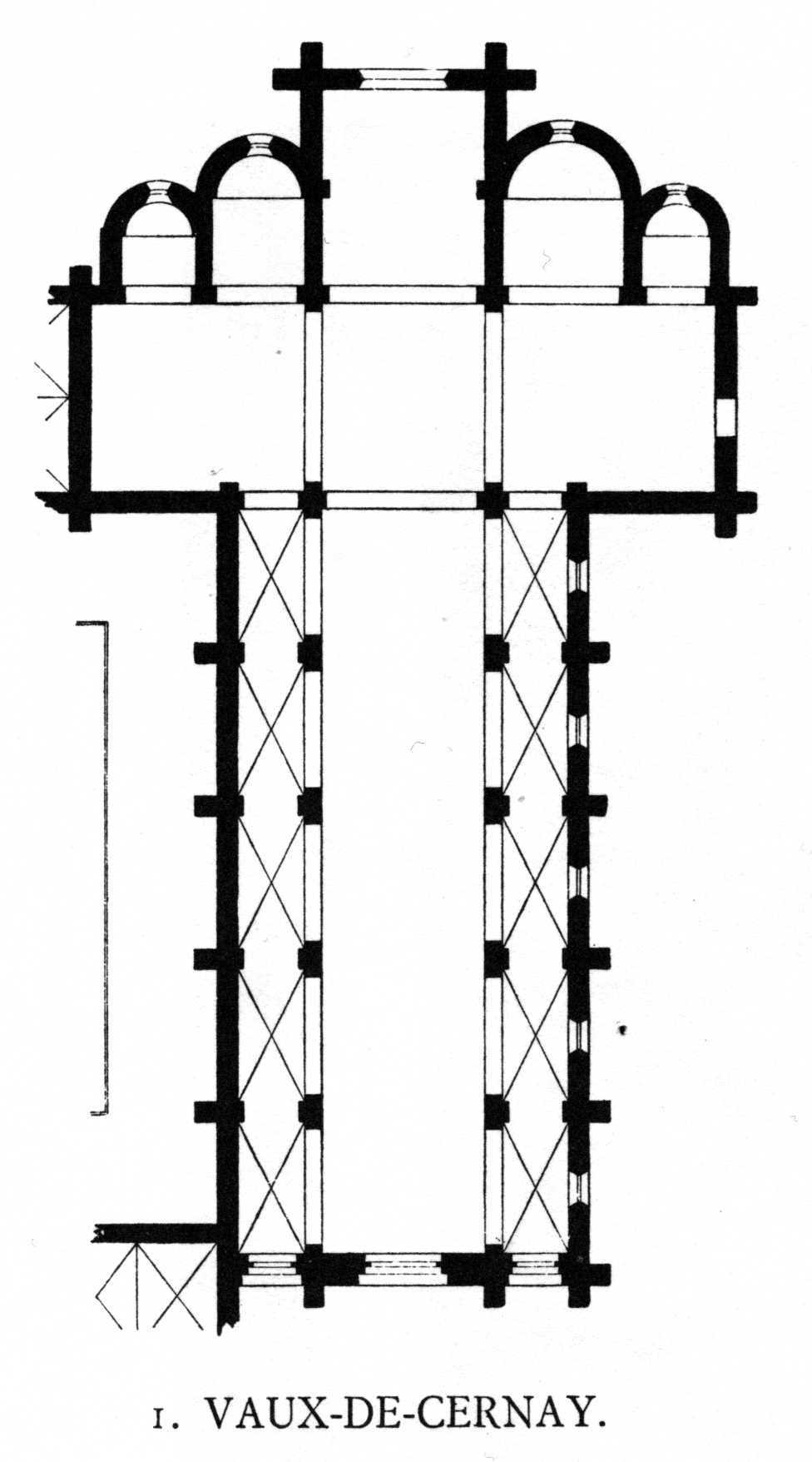 Monastery of Vaux-de-Cernay, Cistercian church